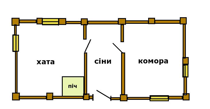 Plan of rustic Ukrainian house